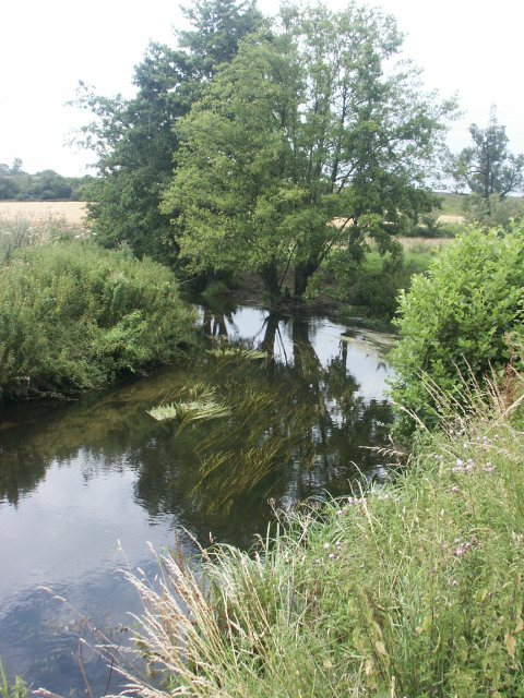 River Tas, Caistor St Edmund. Just to the west of the walls of Venta Icenorum.